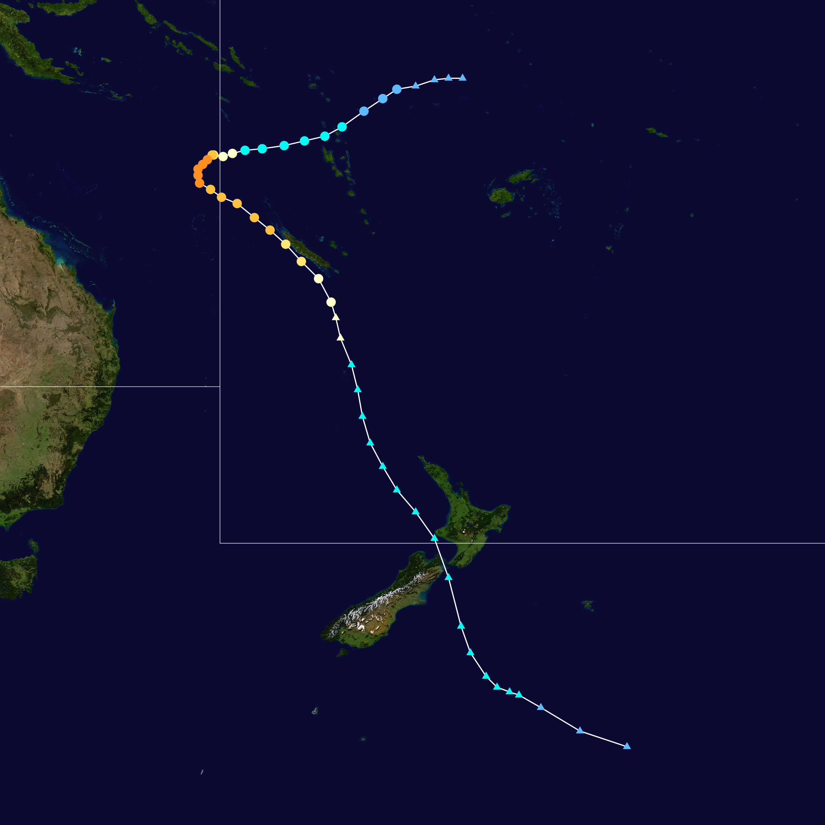 Cyclone Drena (1997) track. Uses the color scheme from the Saffir-Simpson Hurricane Scale.